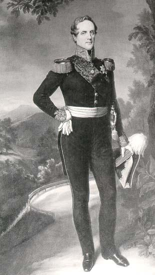 The king of saxonia Friedrich August II. (1797-1854)